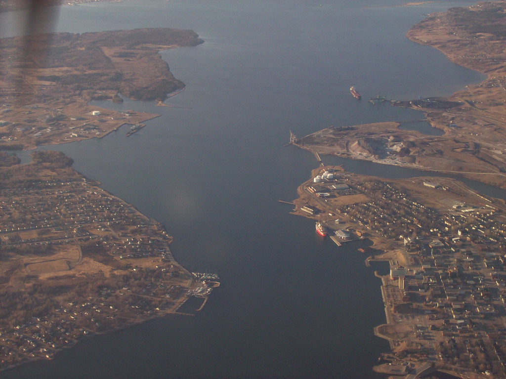 Aerial view of Sydney Harbour. Top right of the photo contains the Sydney Coal Piers. The middle-right shows the government wharf where the Big Fiddle is located. The ship docked at the government wharf is the Canadian Coast Guard Icebreaker CCGS Louis S. St-Laurent. The lower-middle right is where the Civic Centre is, the home of the Cape Breton Regional Municipality government.